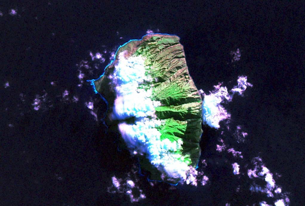 Alejandro Selkirk Island, Juan Fernandez Islands, Chile (Pacific Ocean) NASA Geocover 2000